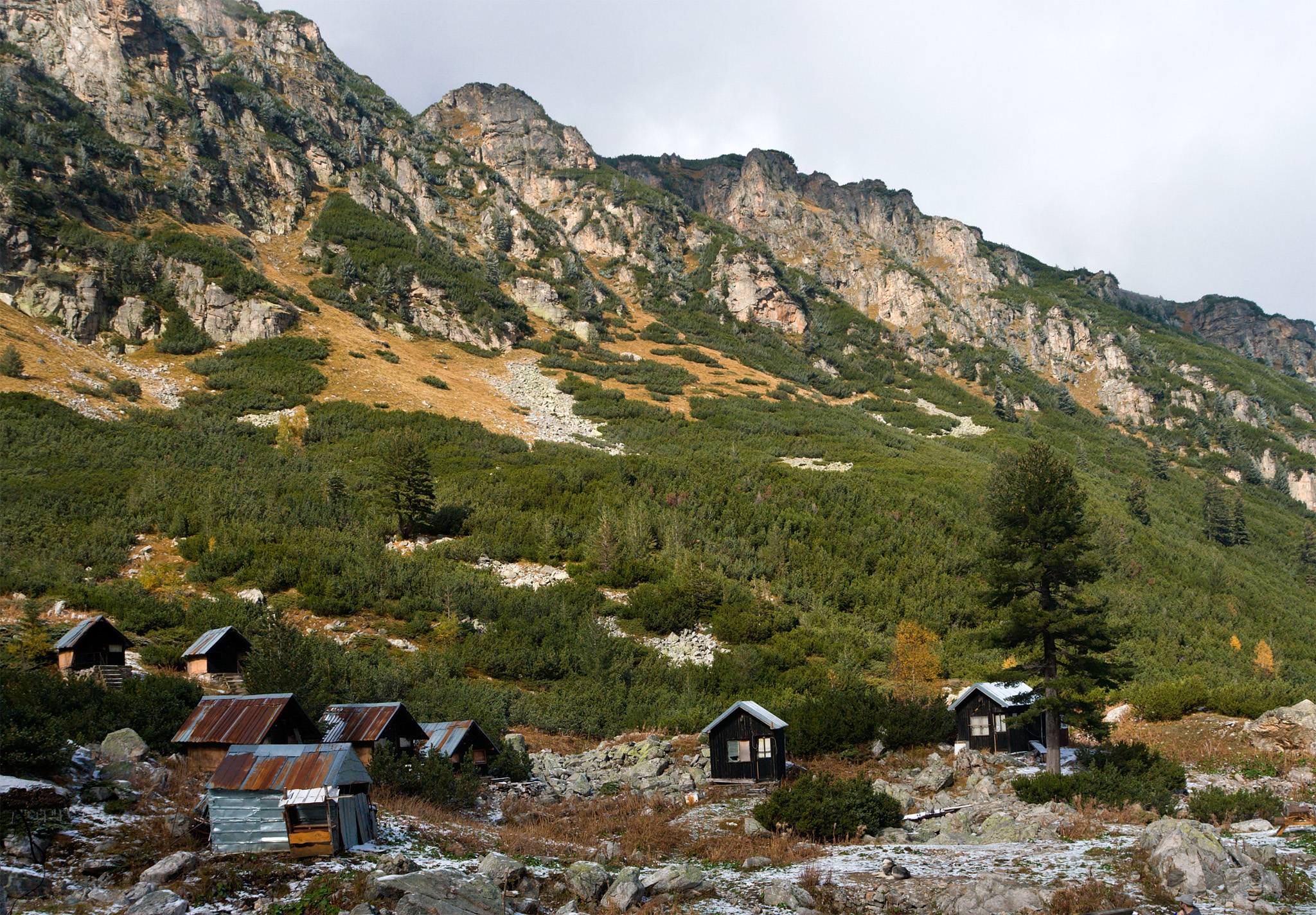 Bungaloes in front of Maliovica hut, Rila mountain, Bulgaria